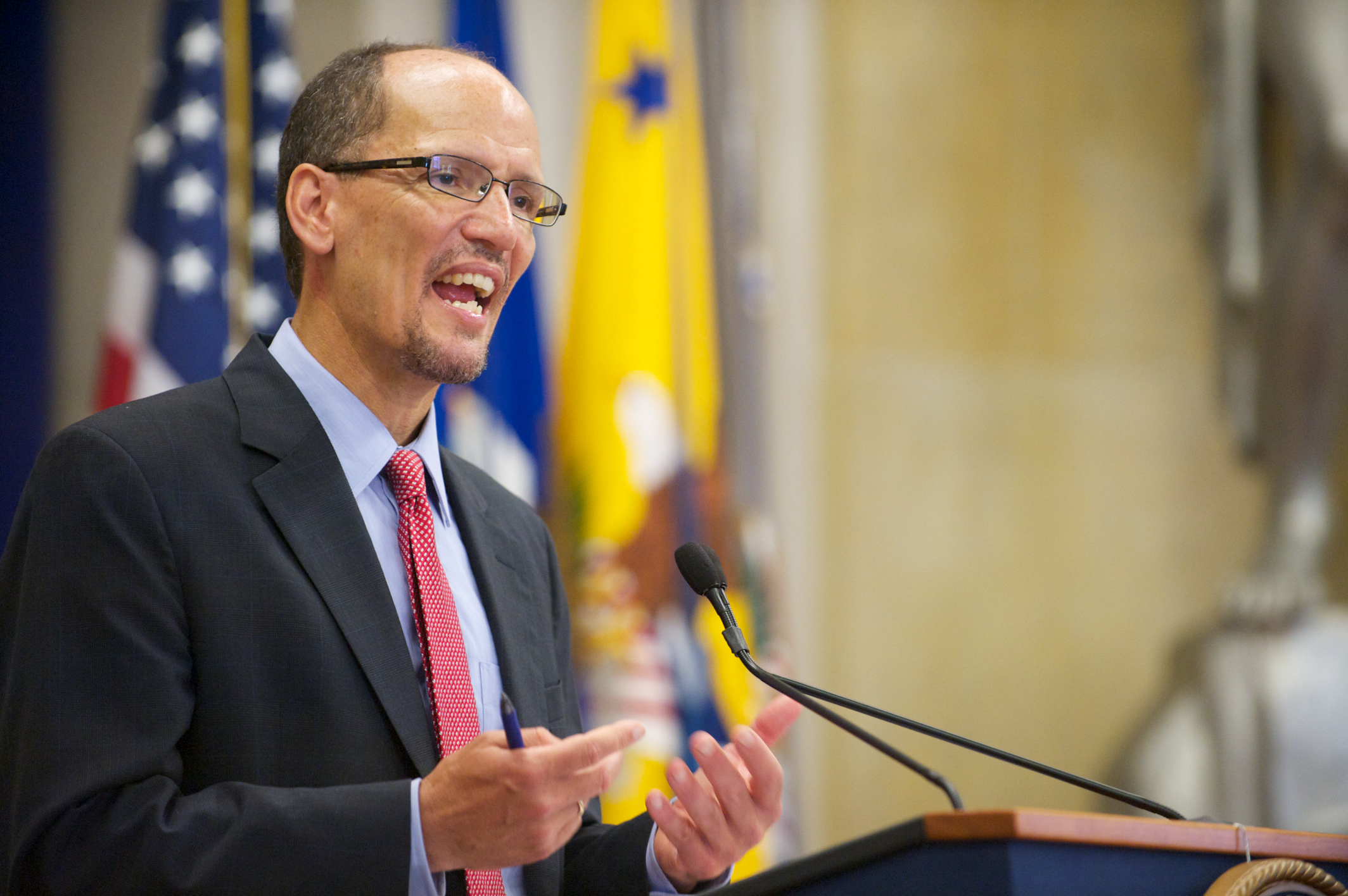 Assistant United States Attorney General Thomas Perez, giving a speech in Washington D.C. on the 22nd anniversary of the passage of the Americans with Disabilities Act, July 26, 2012.